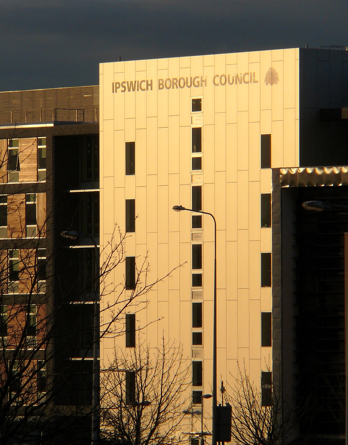 Part of Ipswich borough council’s Grafton House office complex, on Russell Road, illuminated by a low sun. The image was taken with a Panasonic Lumix DMC-TZ1.